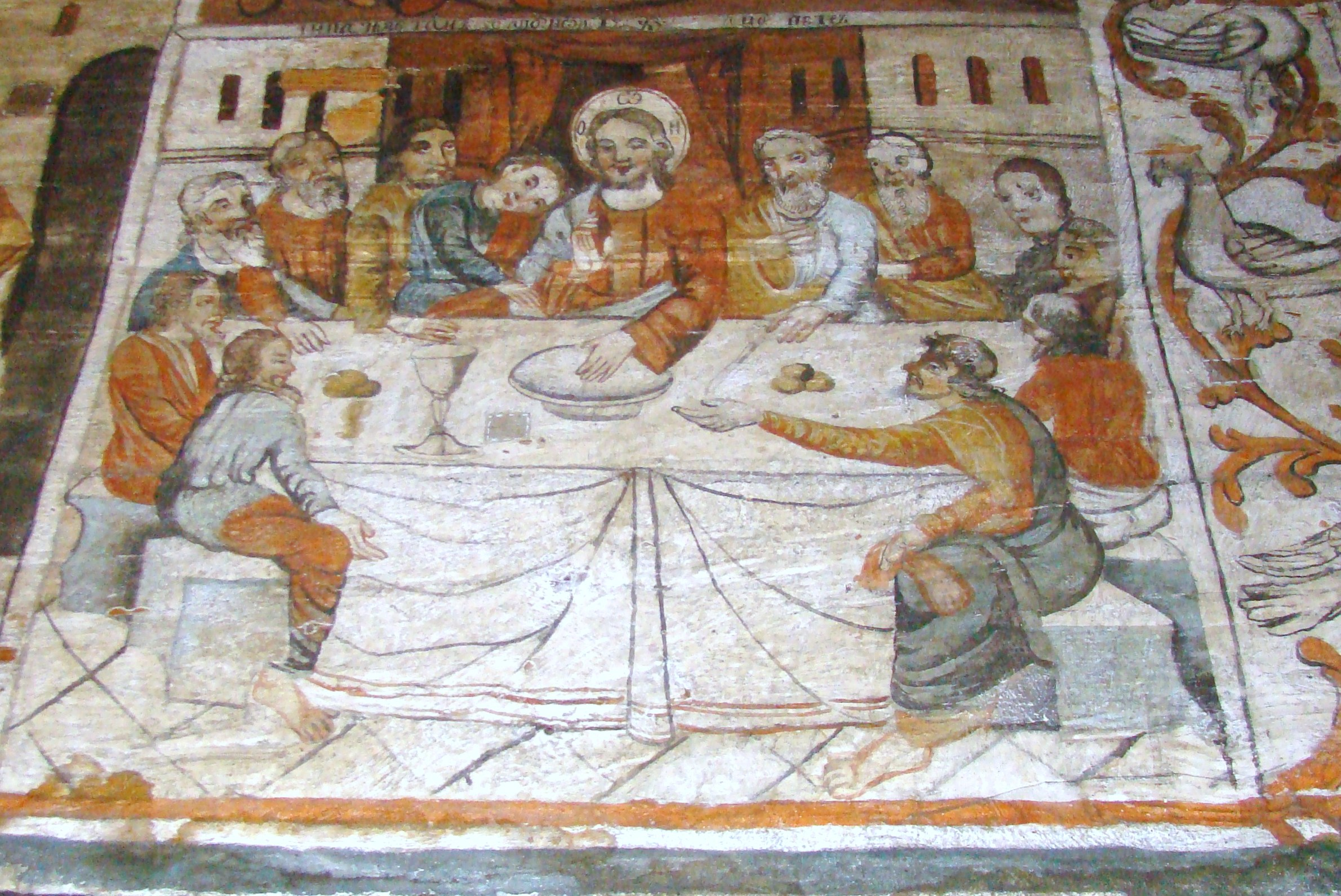 Wooden church in Borșa, Maramureș county, Romania